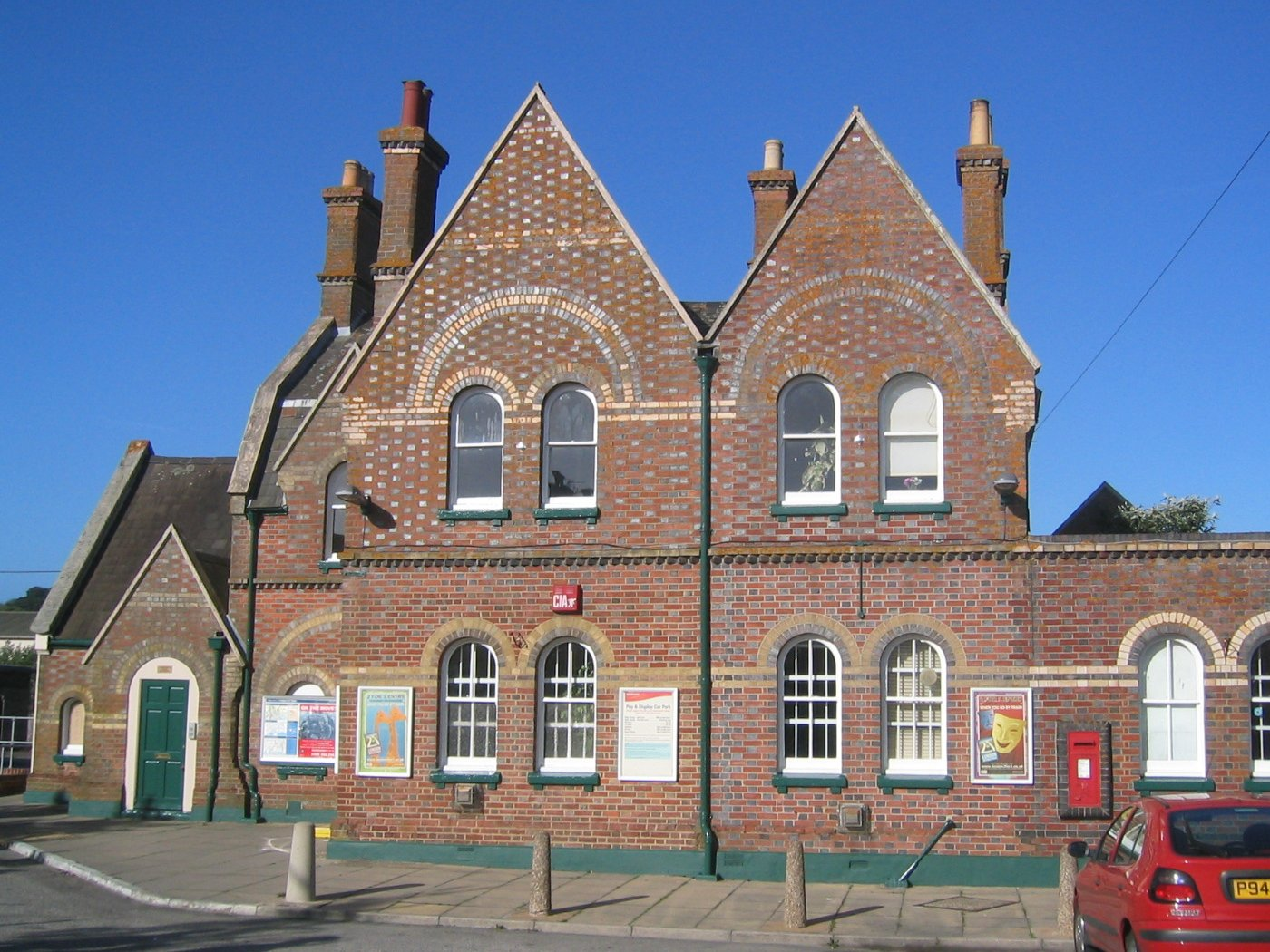 Lymington Town railway station, on the Lymington Branch Line, Lymington, Hampshire, UK. Photo taken by me 2005-05-28.